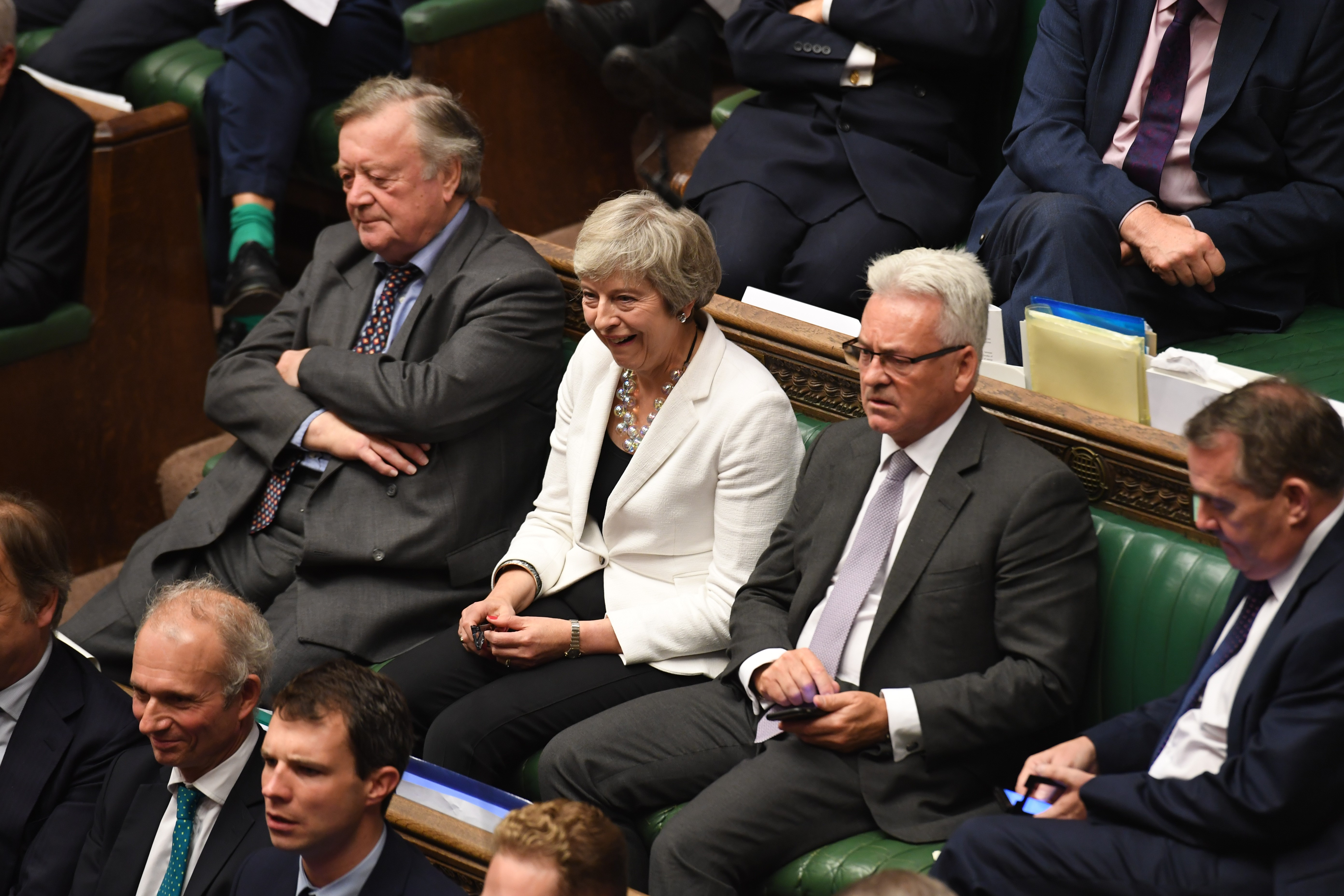 The government backbench in the British House of Commons, with former Prime Minister Theresa May (Maidenhead) sitting between Father of the House Ken Clarke (Rushcliffe) and former Minister of State Sir Alan Duncan (Rutland & Melton).